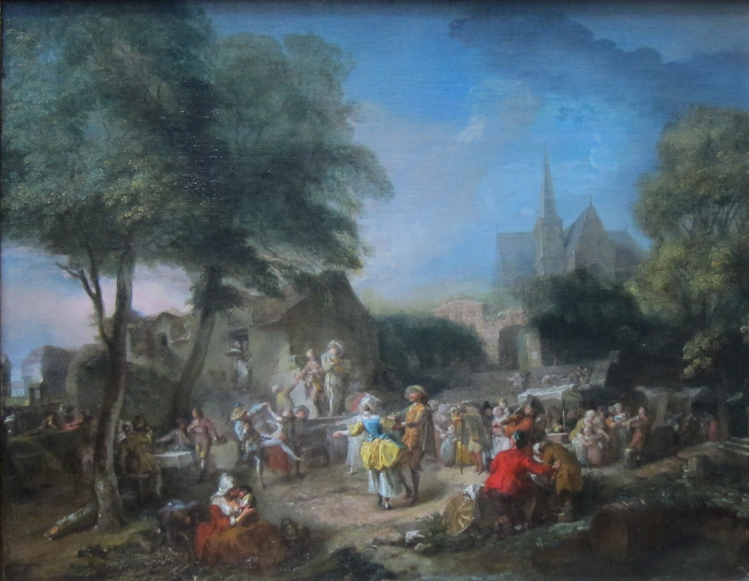 The Country Dance, oil on canvas painting by Gabriel de Saint-Aubin, c. 1760-62, Getty Center